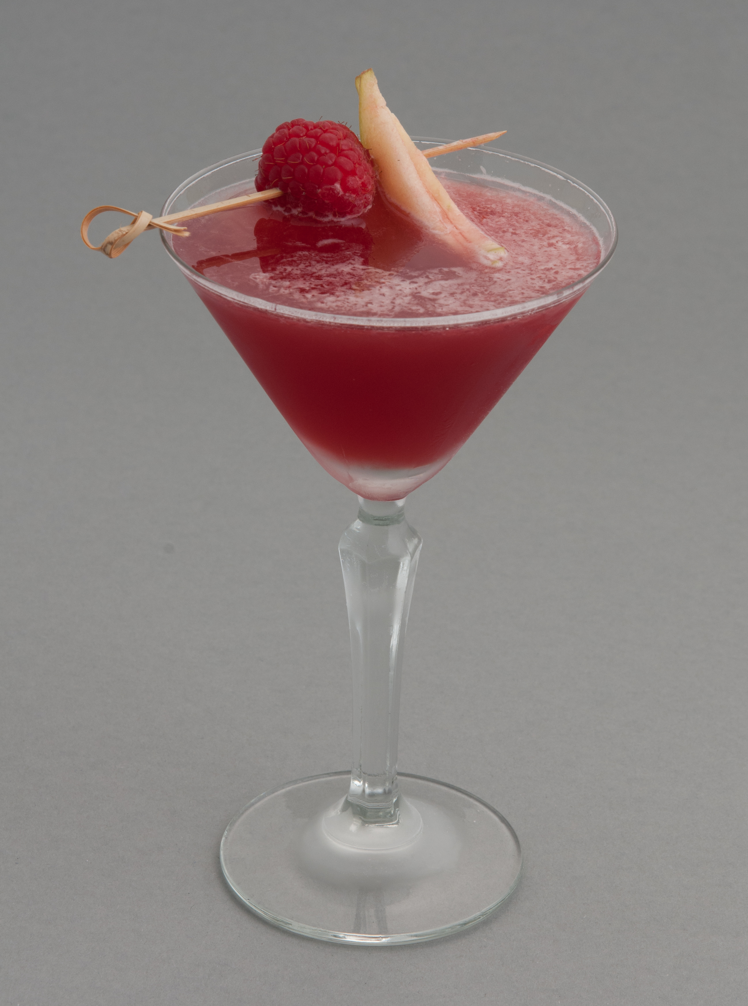 Jack Rose, a cocktail made of Applejack, lemon or lime juice and grenadine.